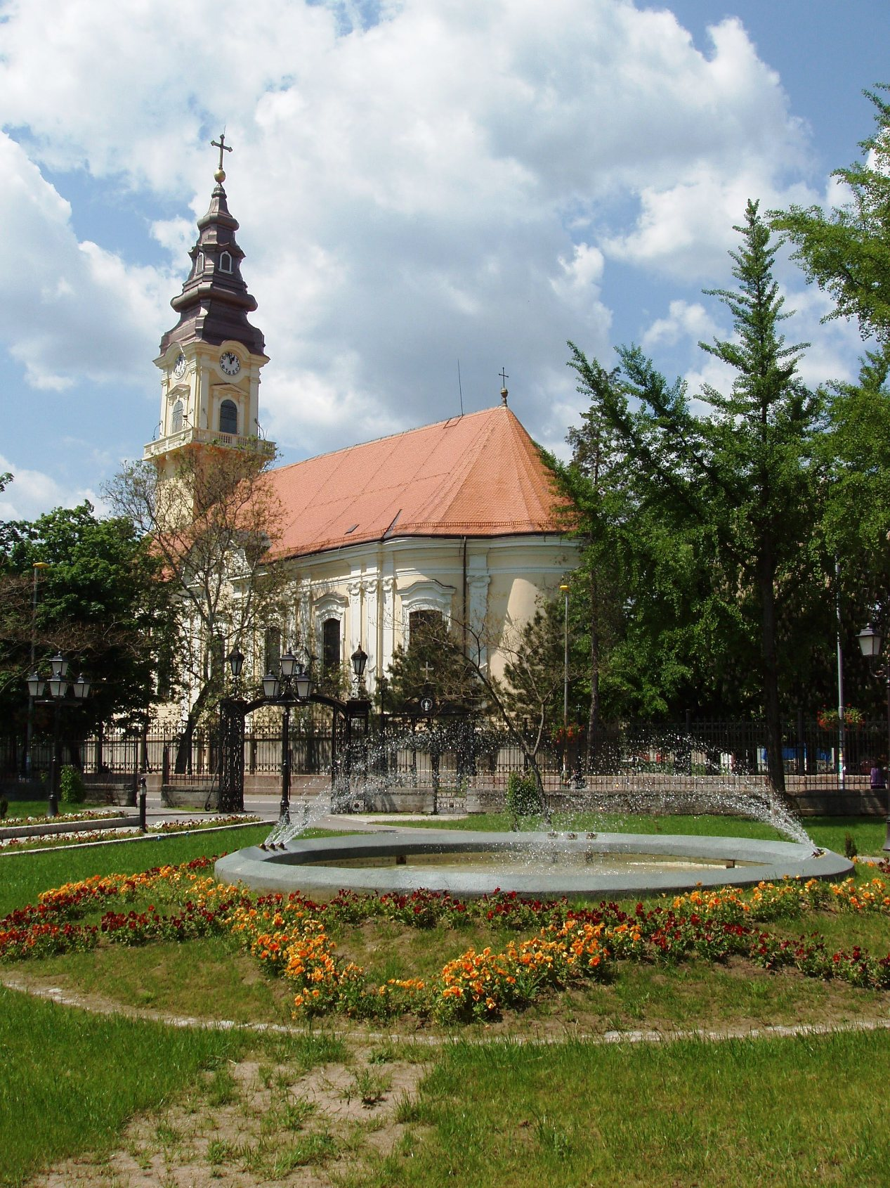 The main Serbian Orthodox Church in Vršac, Vojvodina, Serbia